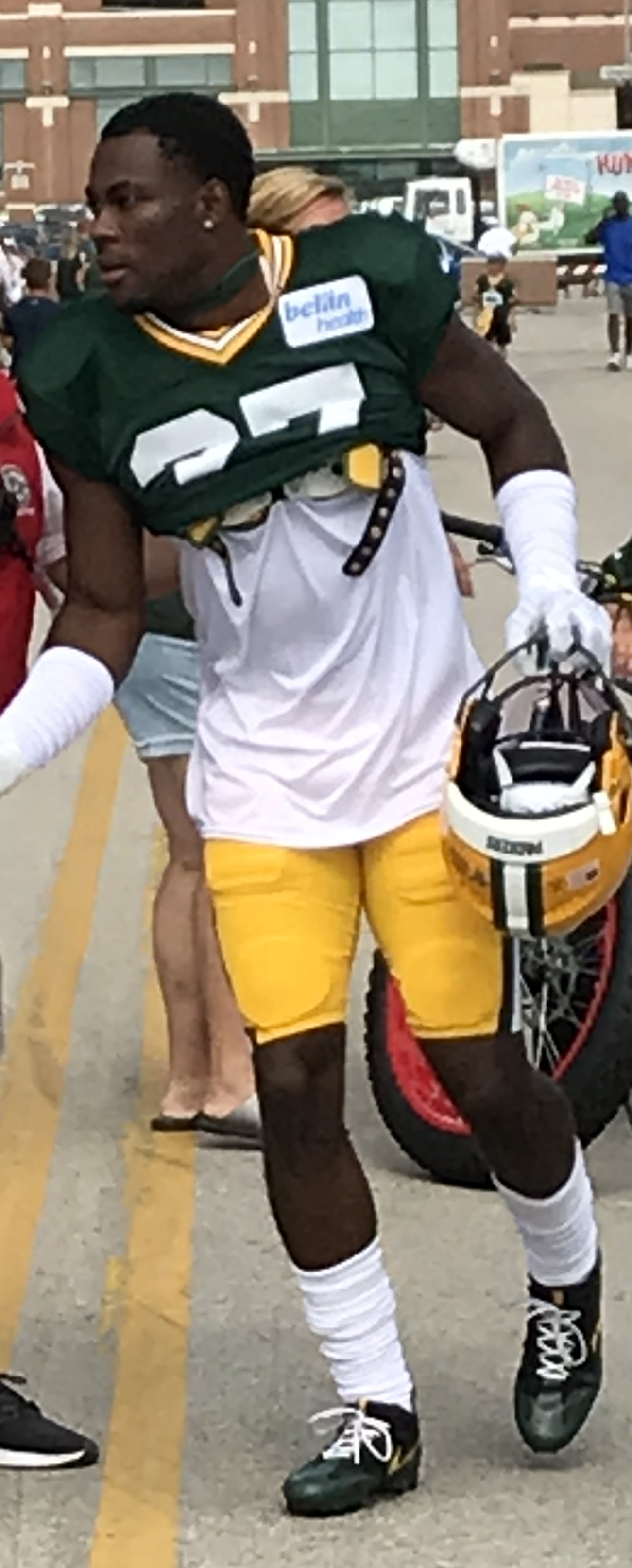 Green Bay Packers defensive back Josh Jackson before a training camp practice on August 13, 2019.